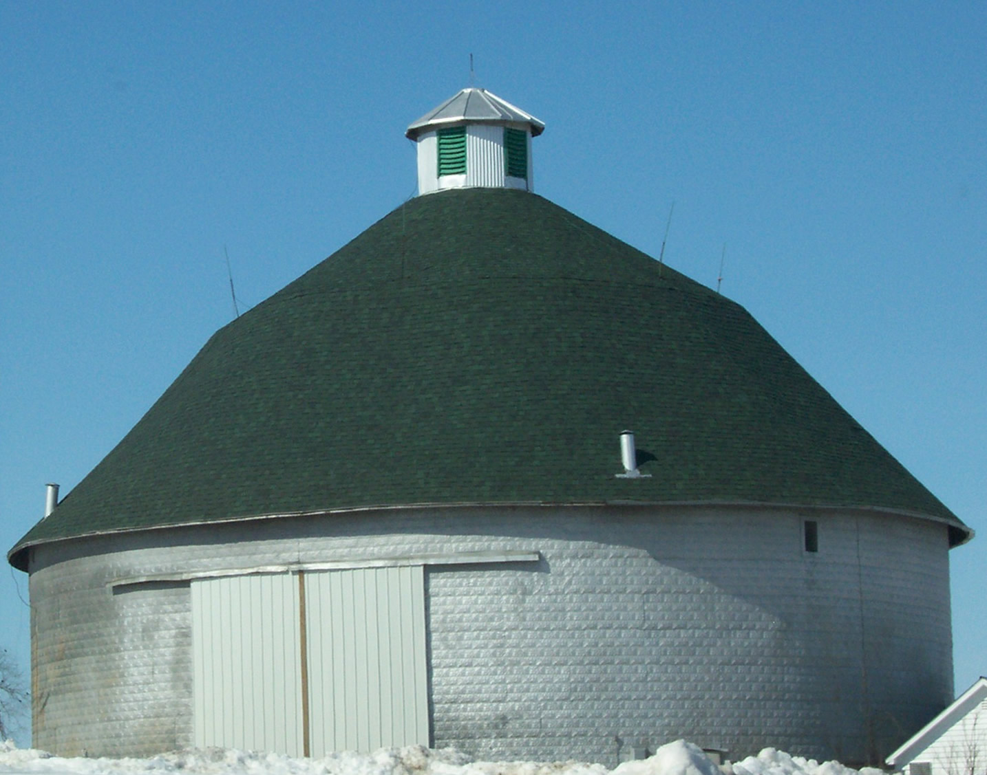 A round barn in Vernon County, Wisconsin, USA near Hillsboro. Just off Wisconsin Highway 80. Taken March 11, 2007 by myself. Cropped from original.